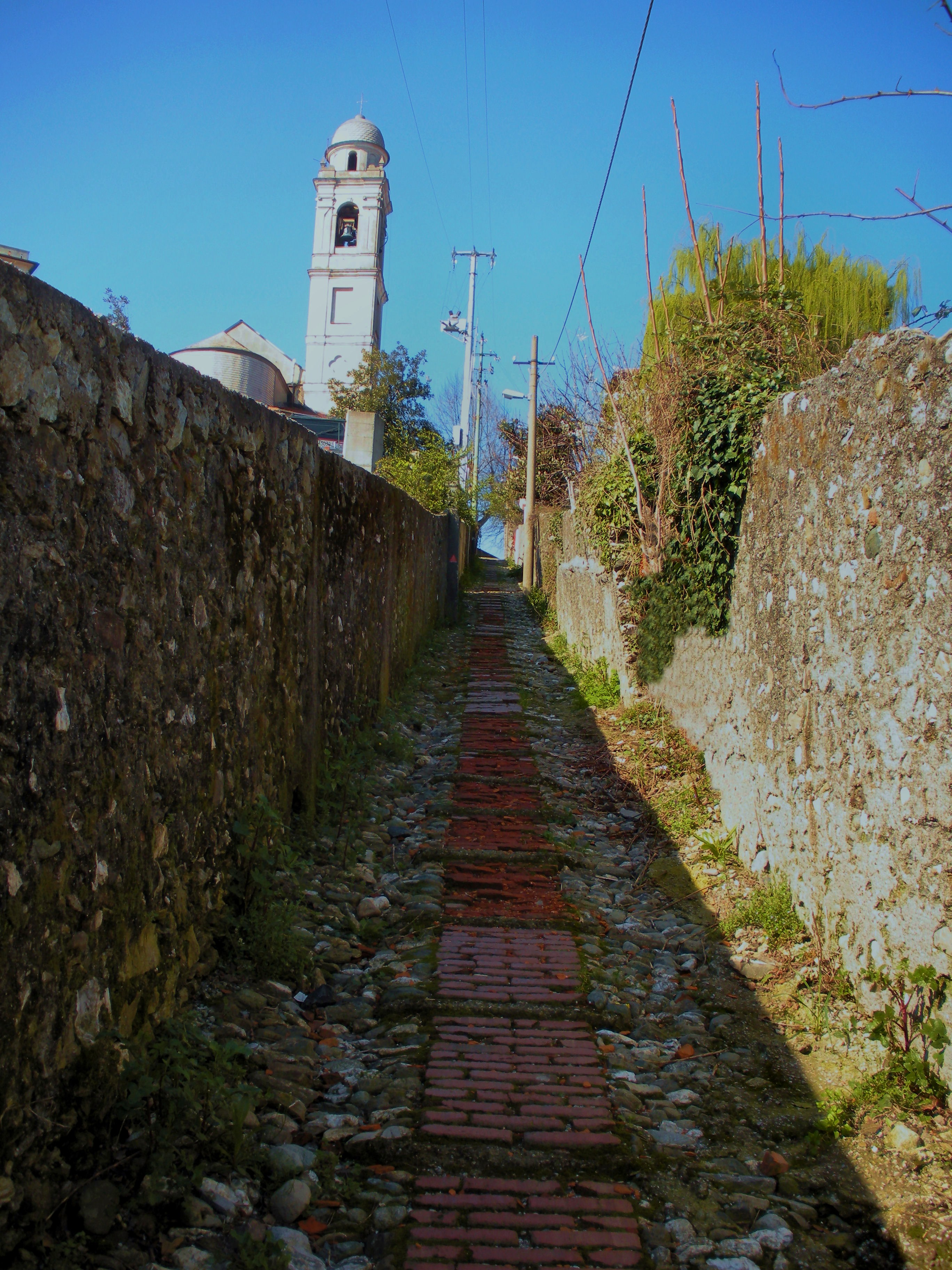 Genoa (Italy), quarter of Bolzaneto, Murta, old track